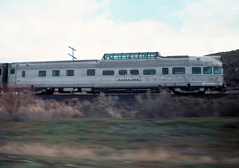 Pacing at 79MPH along I-70. One of the last runs of the Rio Grande Zephyr, April 1983. Scan from a 35mm slide. The Budd Company built #1145 Silver Sky in 1948-1949 for the D&RGW as part of the original California Zephyr. The Vista-Dome buffet-lounge-observation included a drawing room and three double bedrooms.